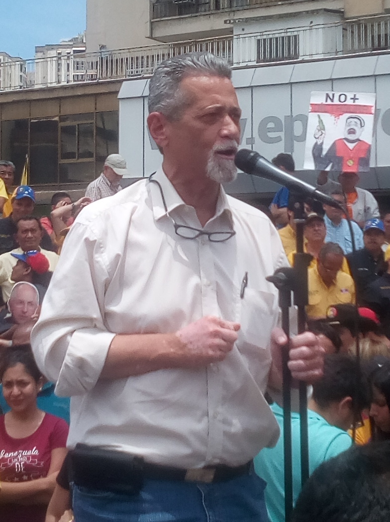 Americo De Grazia during the Venezuelan National Assembly special session in Brión Square, Caracas, on 1 April 2017